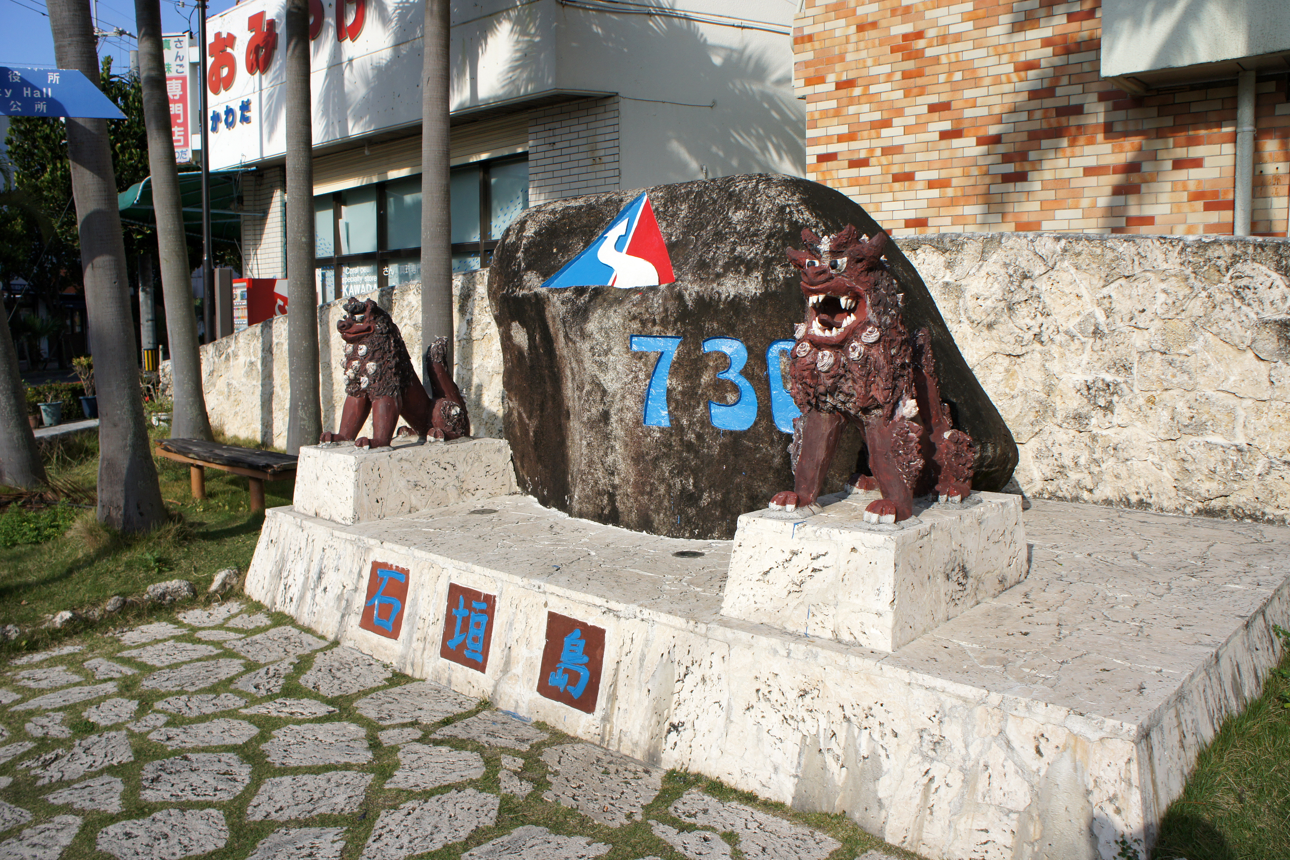 The 730 Crossing in Ishigaki Island, Ishigaki City, Okinawa Prefecture, Japan.